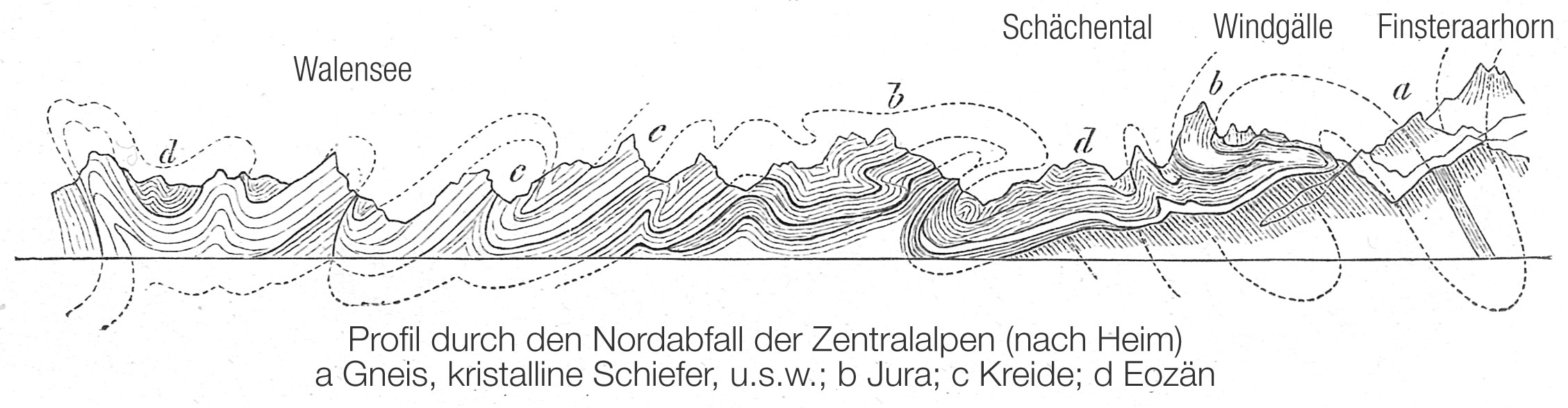 de: Profil durch den Nordabfall der Zentralalpen (nach Heim)Profile through the Helvetic nappes by Albert Heim. This profile was drawn before Heim converted to the theory of thrusting and therefore contained many mistakes in the eyes of modern geologists